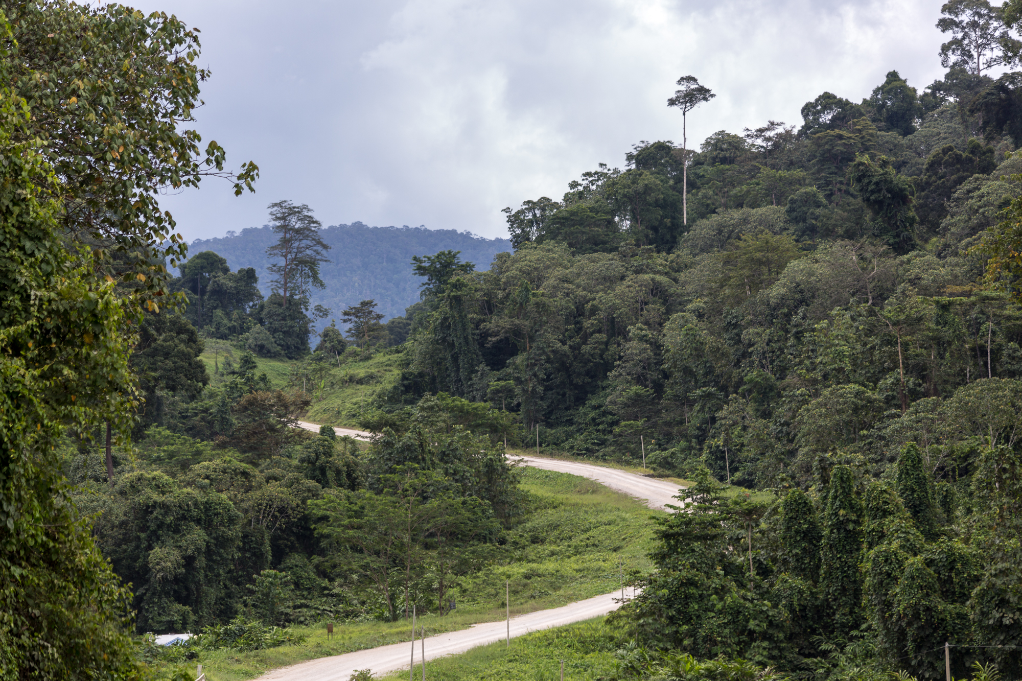 Maliau Basin, Sabah: Kalabakan-Sapulut-Road at Shell Maliau Basin Reception & Information Building